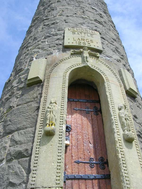 Memorial to Battle of Largs, LargsMemorial to Battle of Largs, Largs